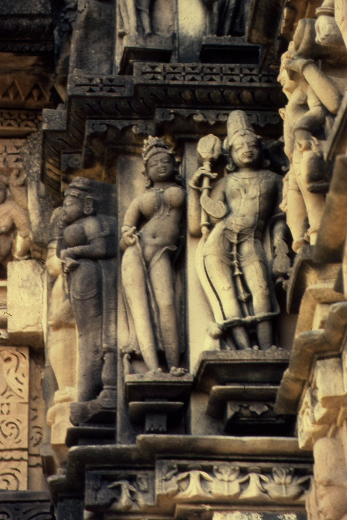 Apsara, Devi Jagadambi Temple, Khajuraho, Madhya Pradesh, India.